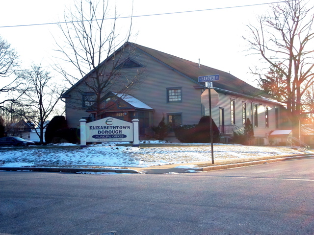 Elizabethtown, Pennsylvania borough hall.